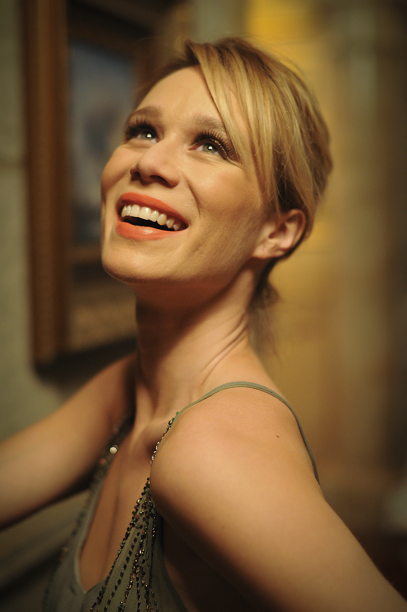 Mariana Ximenes, brazilian actress.